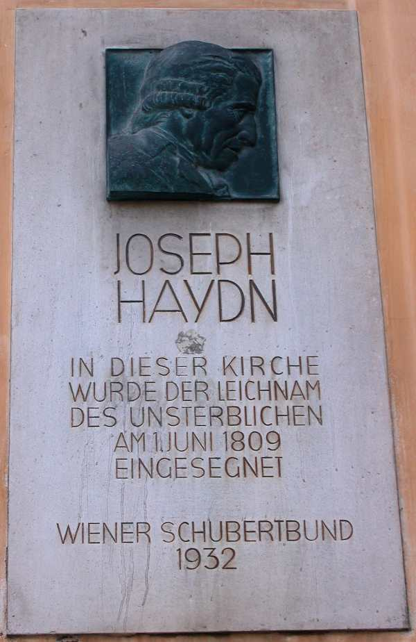 Plaque for Joseph Haydn at the parish church Gumpendorf in Vienna, Gumpendorfer Straße 109 / Kurt Pint-Platz. Revealed on March 30, 1932.